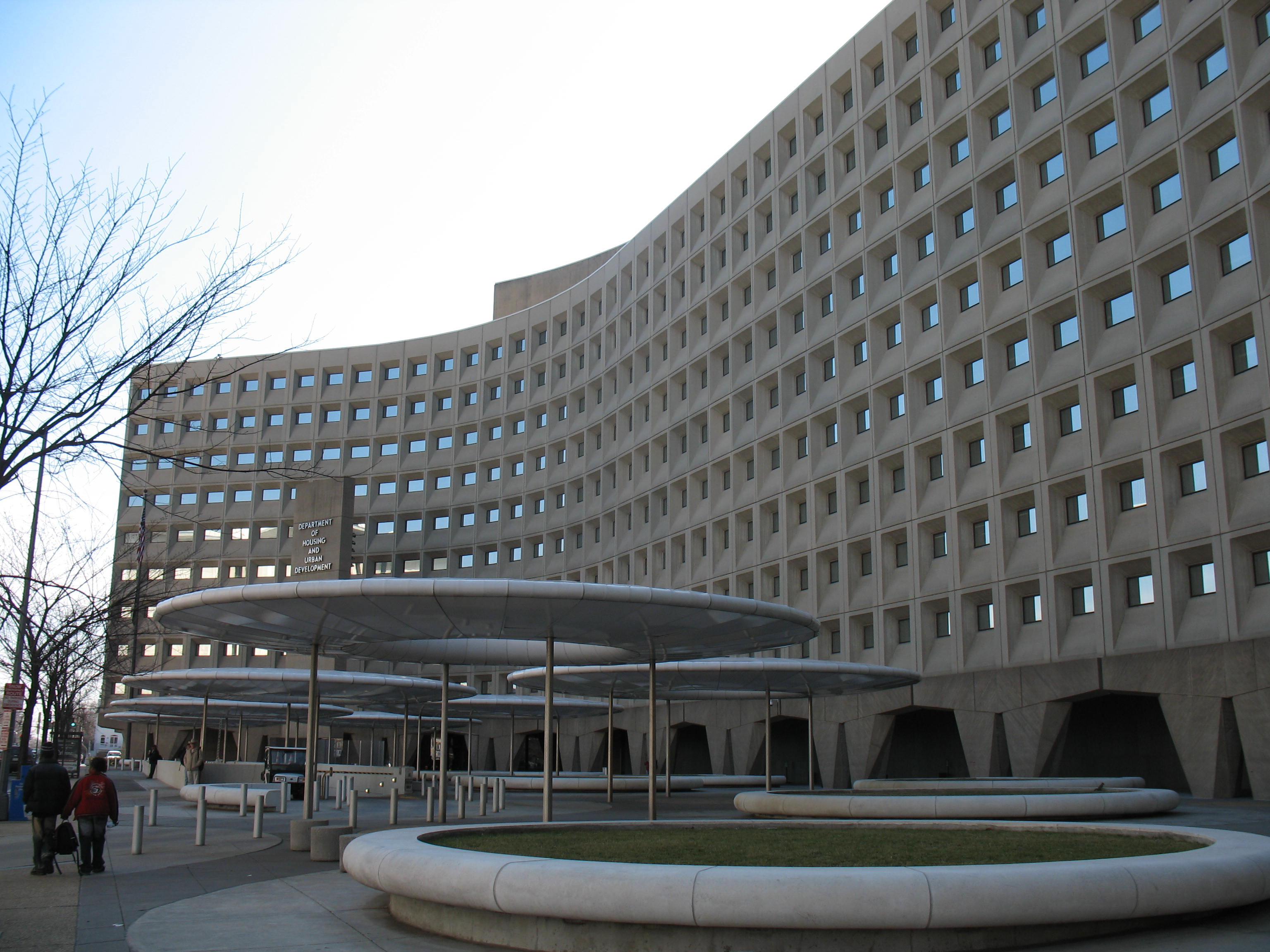 Robert C. Weaver Federal Building, the United States Department of Housing and Urban Development headquarters. Washington, D.C.